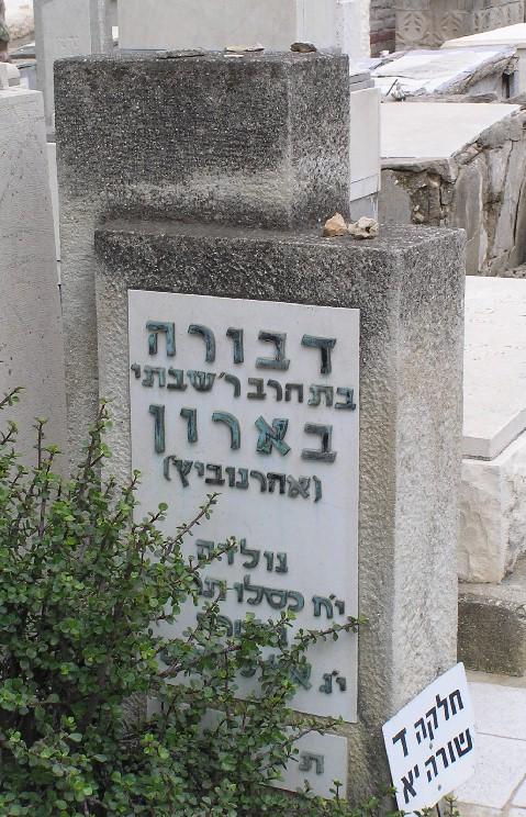 Tomb of Dvora Baron (a Hebrew author) in Trumpeldor cemetery in Tel Aviv February 2006, by Eman